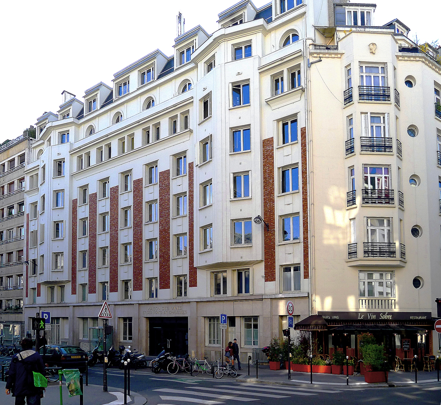 Saint-Jacques street - Paris